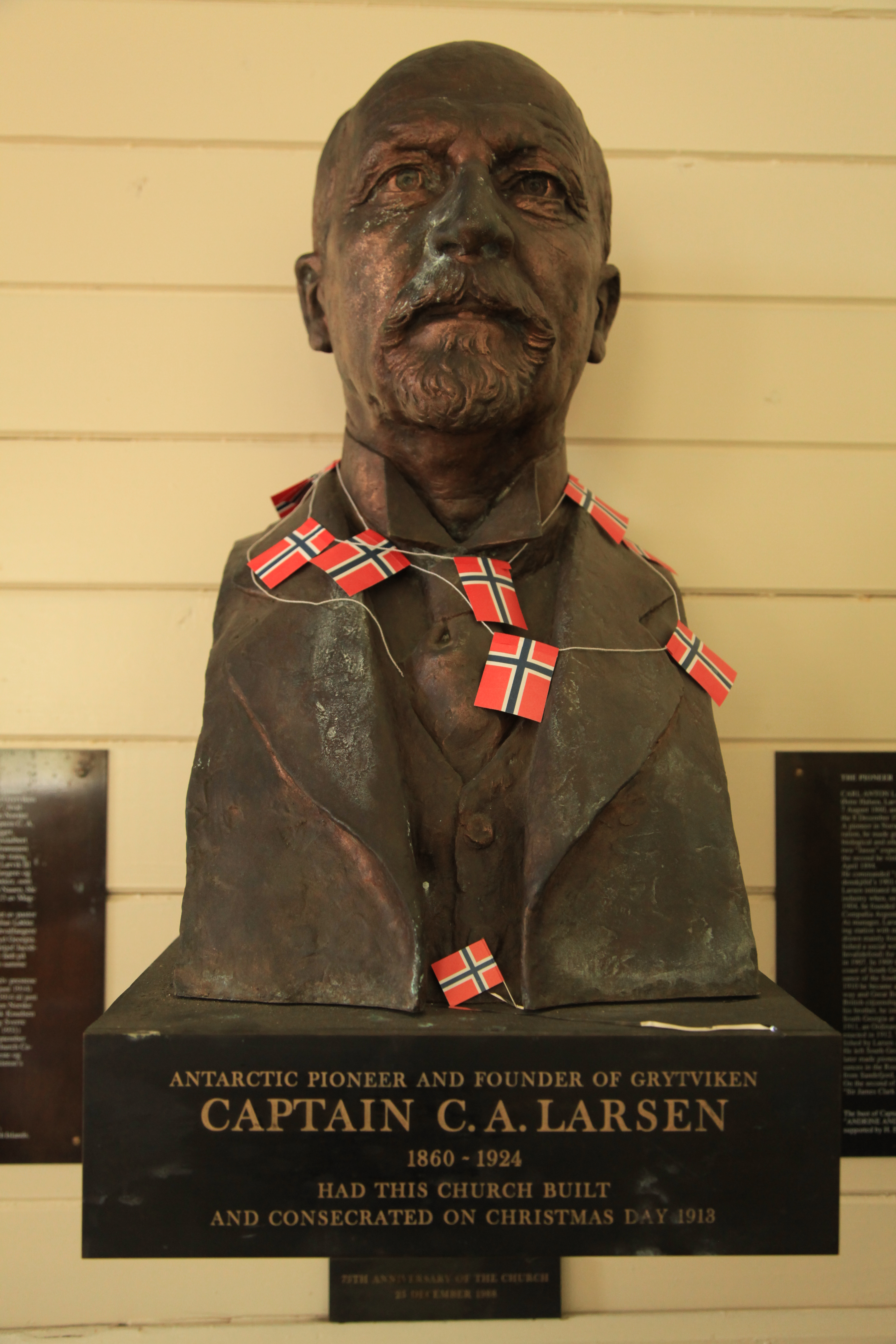 This bust sits in the Whalers' Church at Grytviken, South Georgia.